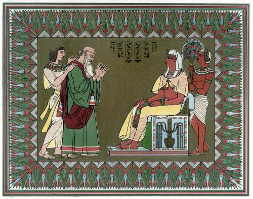 Illustration by Owen Jones from "The History of Joseph and His Brethren" (Day & Son, 1869). Scanned and archived at where it was marked as Public Domain. Text from Book: And Joseph brought in Jacob his father, and set him before Pharaoh: and Jacob blessed Pharaoh. Genesis, C. XLVII. V. 7.